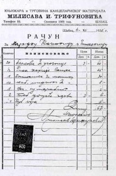 Рачун из књижаре Милисава Трифуновића